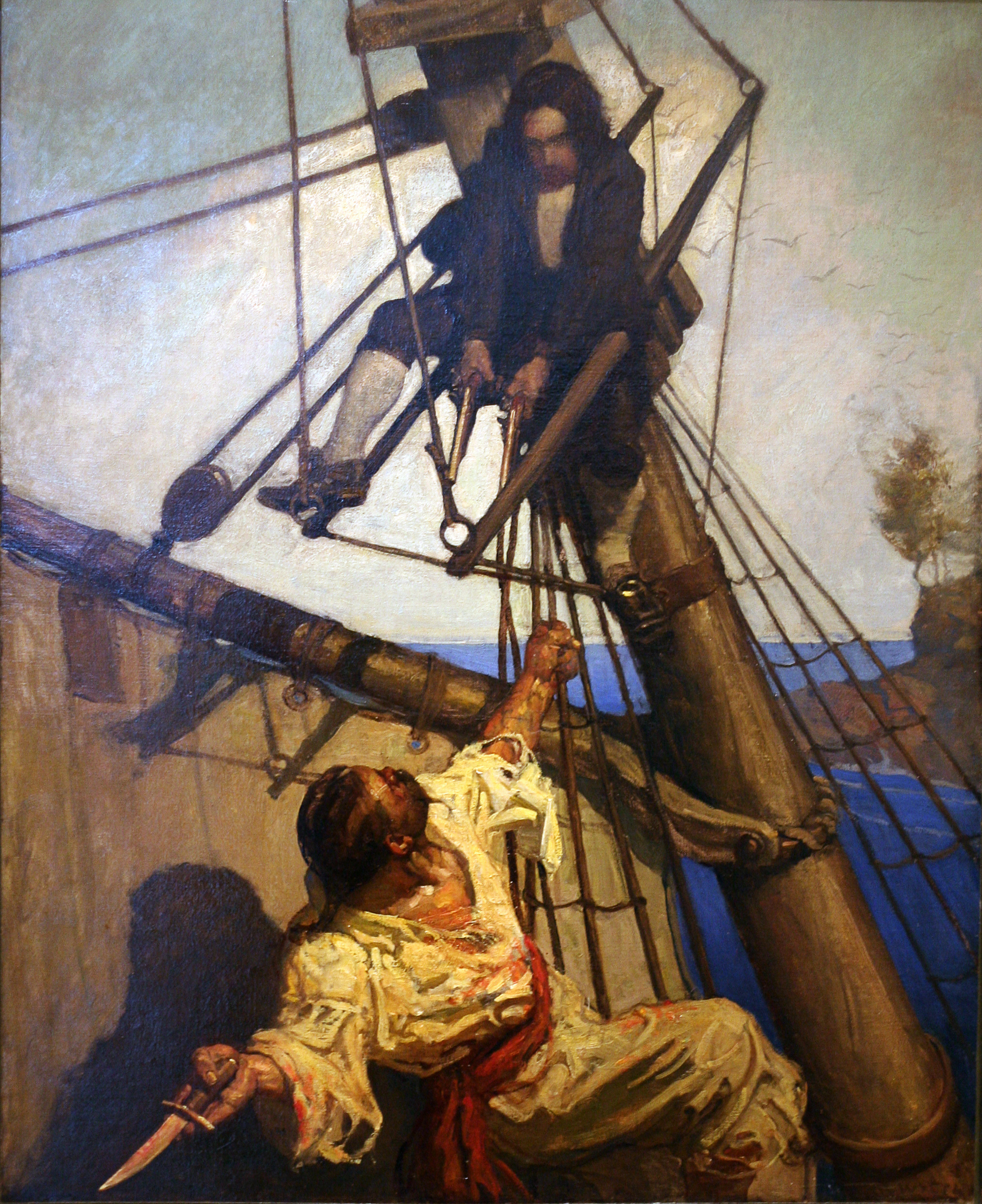 "One more step, Mr. Hands," said I, "and I'll blow your brains out!" Illustration by N.C. Wyeth for the 1911 edition of Robert Louis Stevenson's Treasure Island.